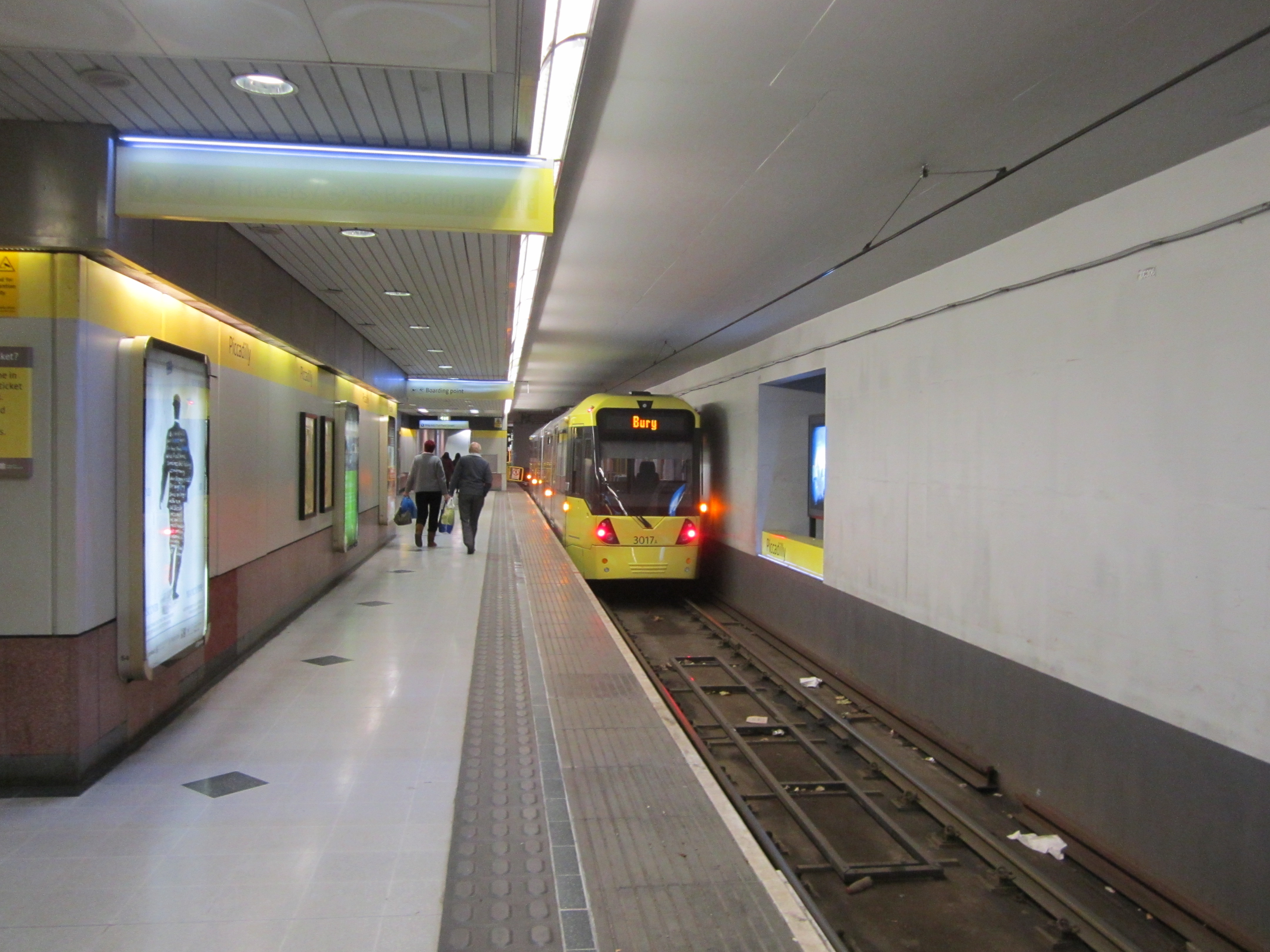 Photo taken at Manchester Piccadilly station, England.